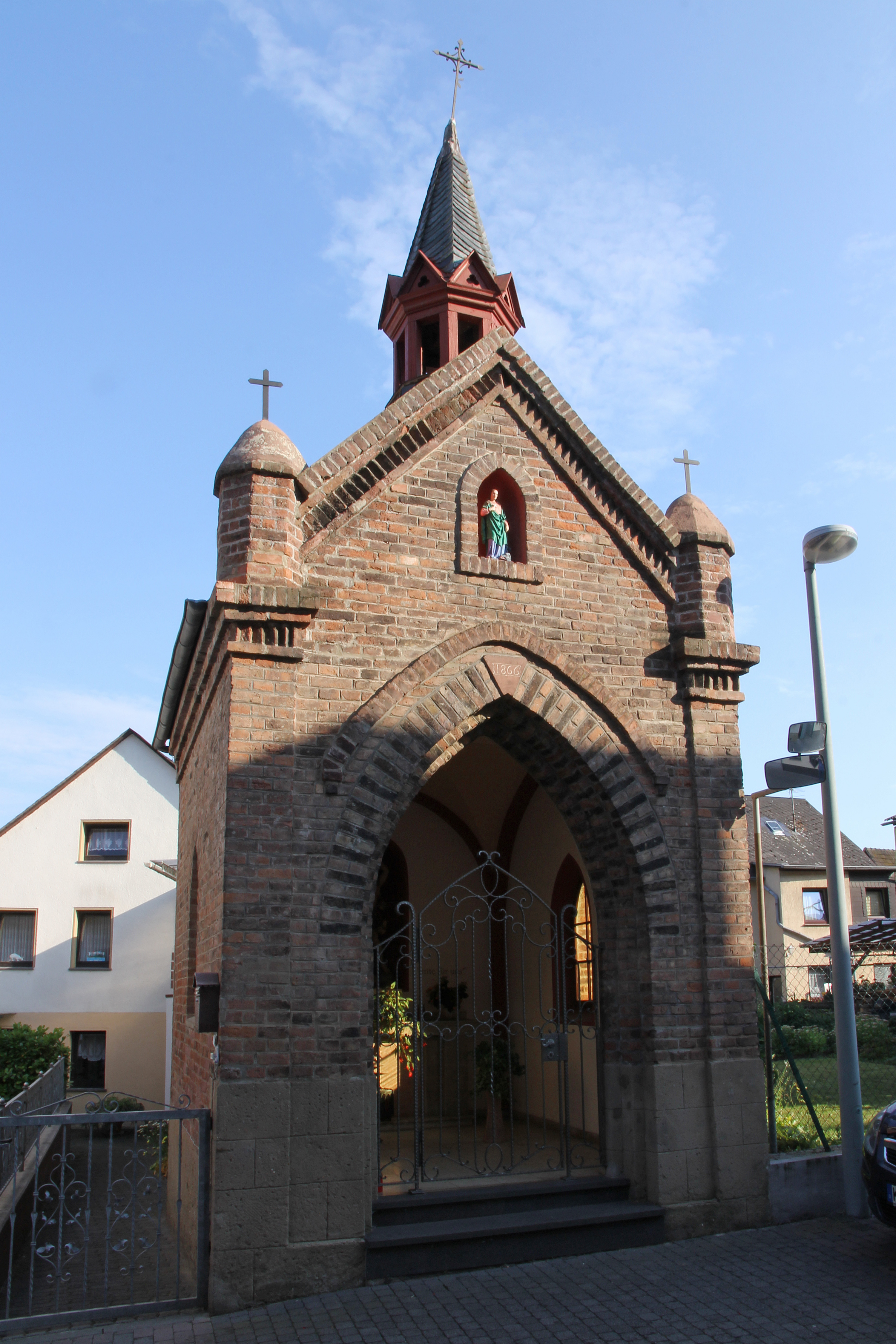 St. Sebastianus chapel in Koblenz